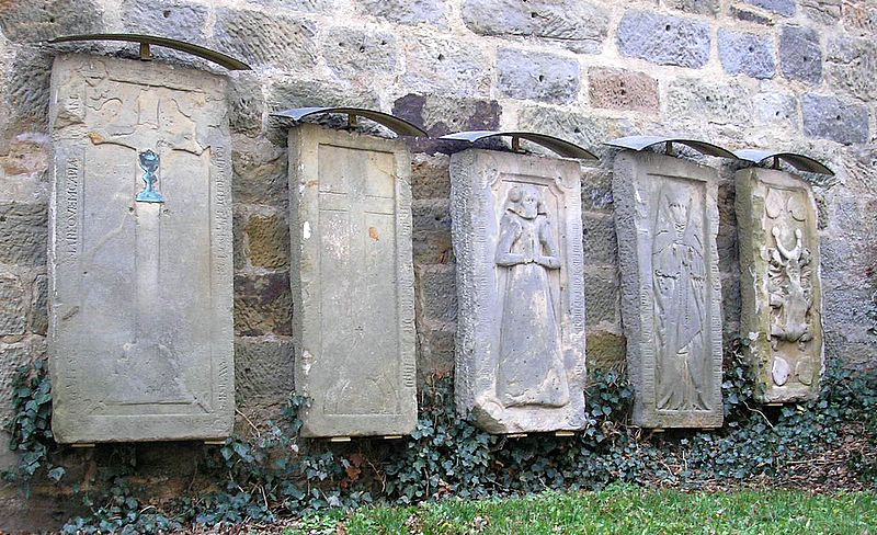 Mürsbach (Markt Rattelsdorf, Landkreis Bamberg, Upper Franconia, Germany). Historic tombstones at the surviving wall of the fortified church